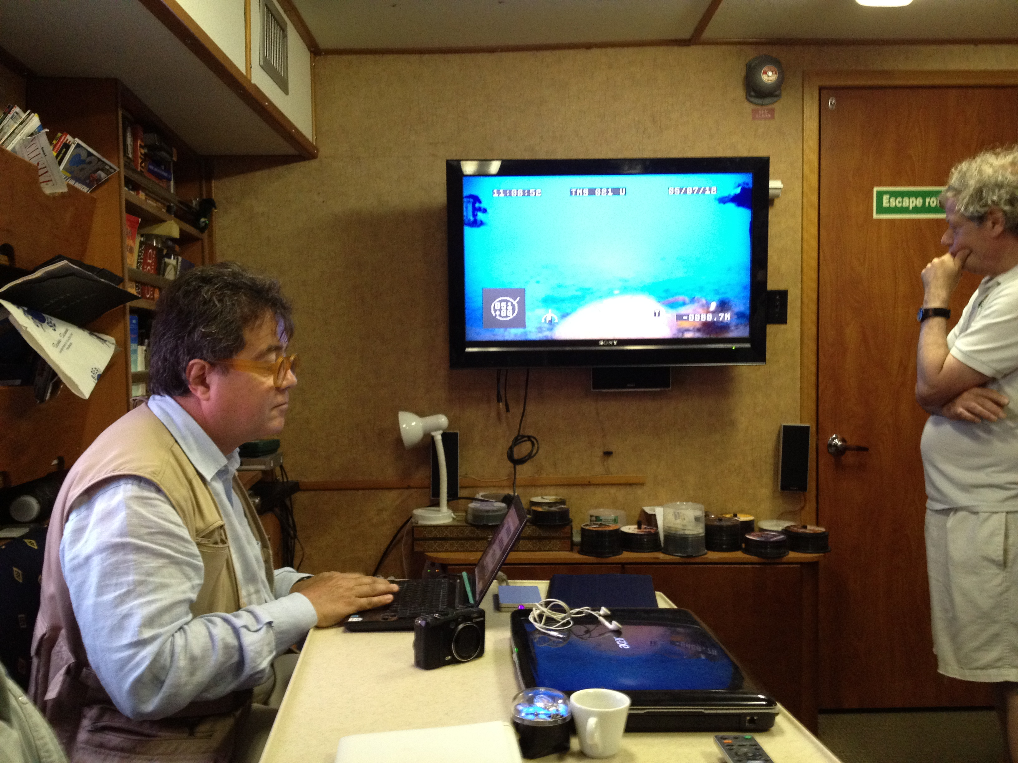 Sebastiano Tusa - Hercules RPM - Rostrum from The Battle of the Egadi 241 B.C.